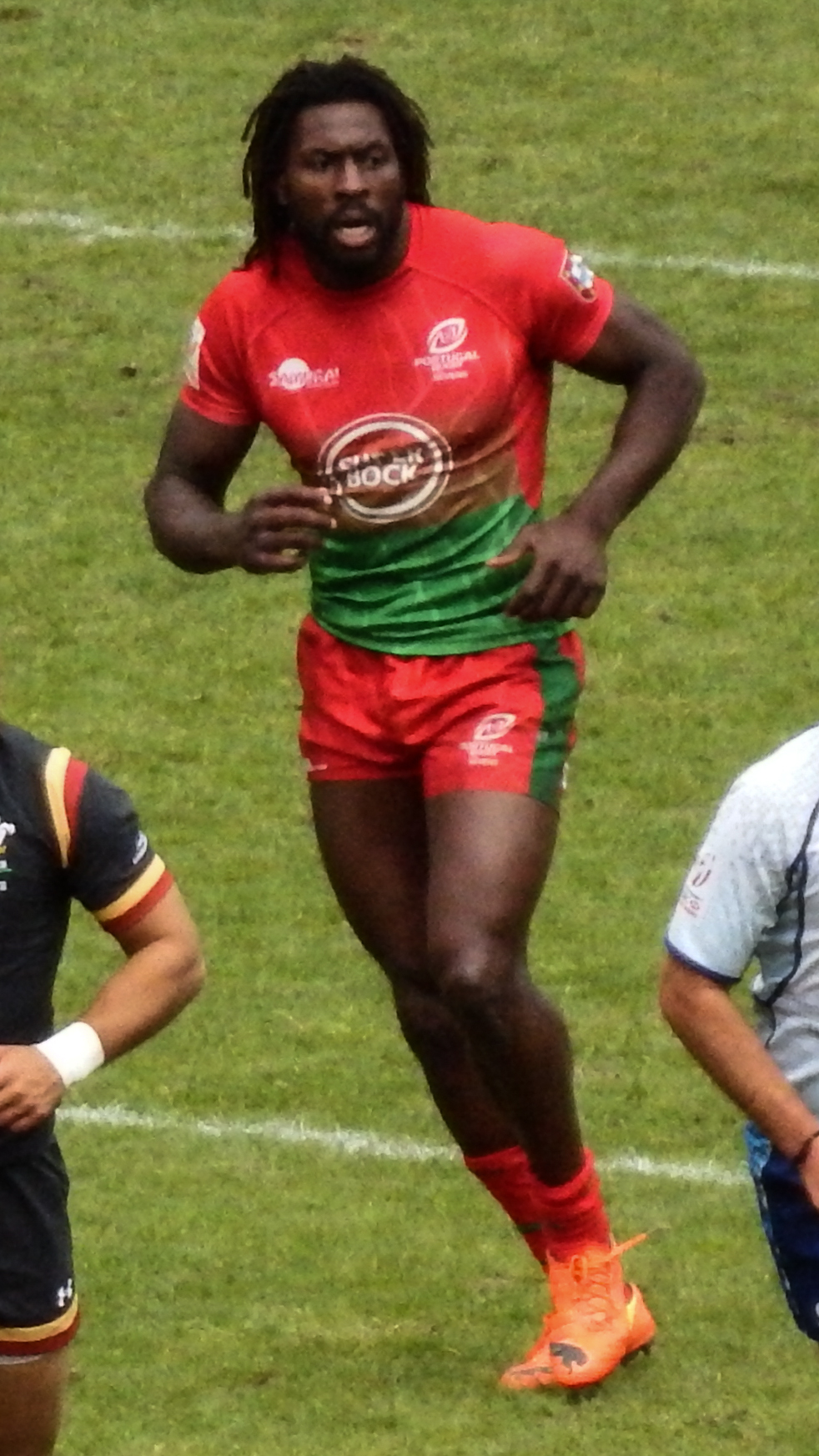 2016 Paris Sevens — 15 May 2016, stade Jean-Bouin. Match between: Wales — Portugal